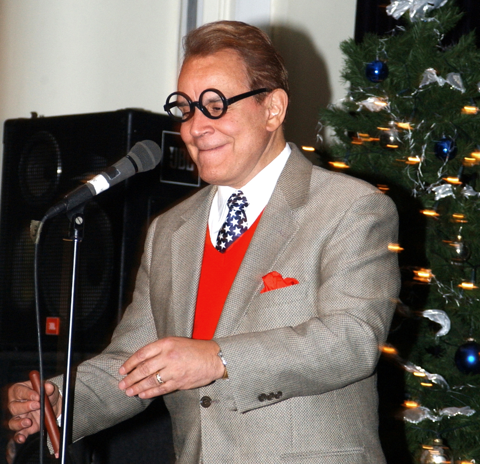 Rich Little, Canadian comedian and impersonator performs at Incirlik Air Base, Turkey as part of the United Service Organizations and Armed Forces Entertainment 2004 Holiday Tour.